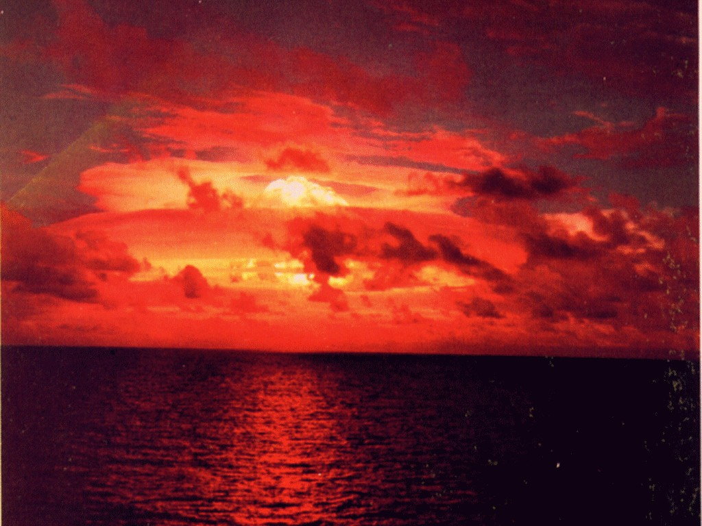 U.S. nuclear weapon test Ivy Mike fireball, 31 Oct 1952, on Enewetak Atoll in the Pacific, the first test of a thermonuclear weapon (hydrogen bomb).